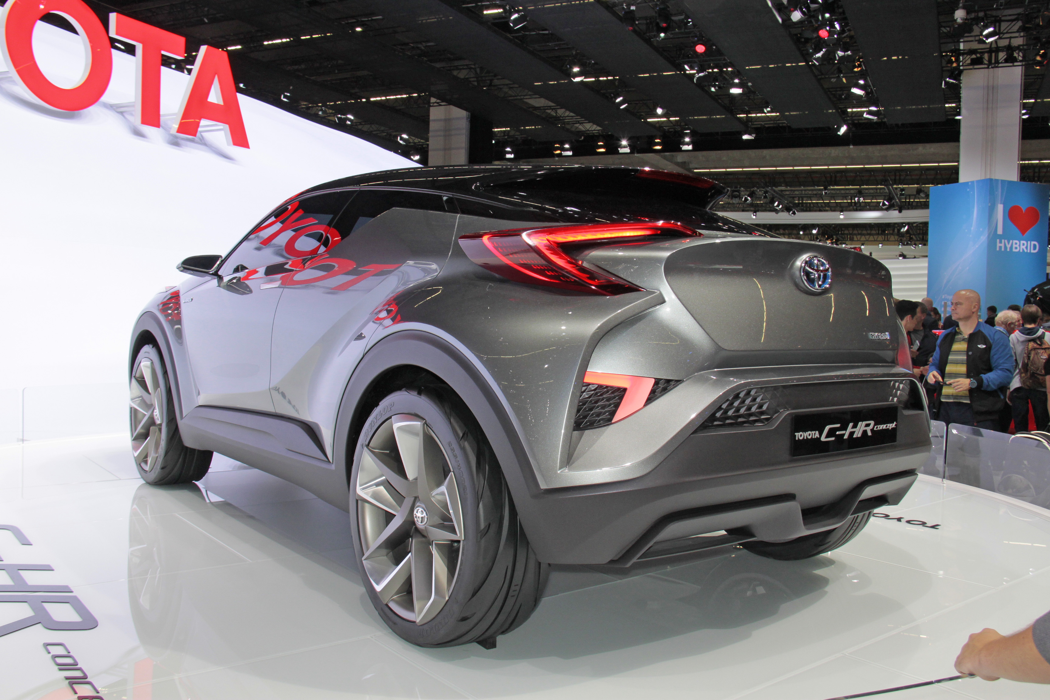 Toyota C-HR Concept at the 2015 IAA in Frankfurt